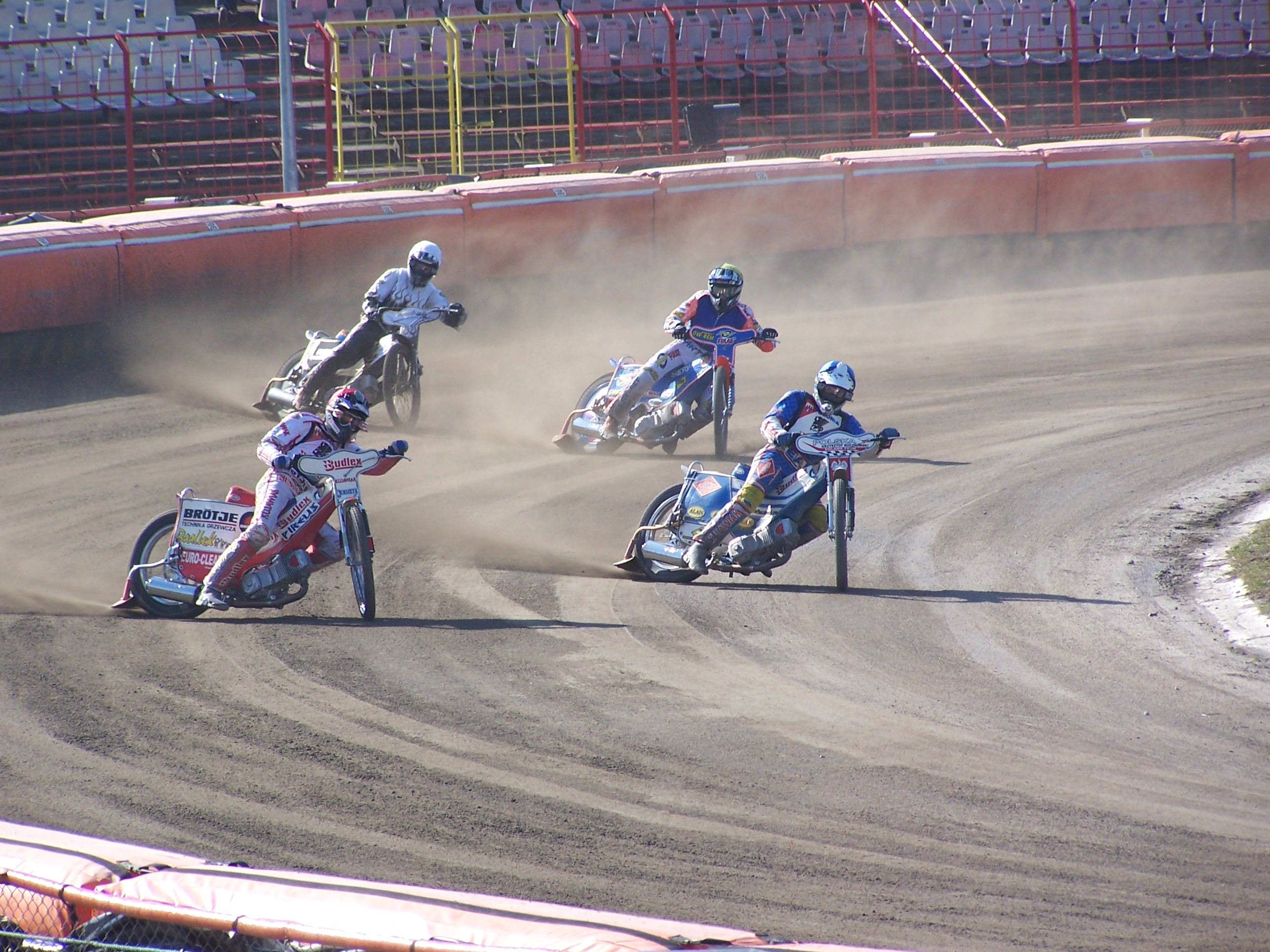 speedway rider on track